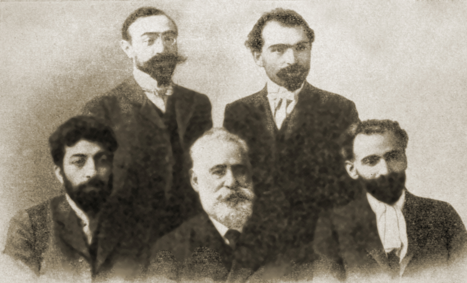 Vernatun members. Sitting: Isahakyna, Aghayan, Tumanyan; standing: Shant, Demirtjian.